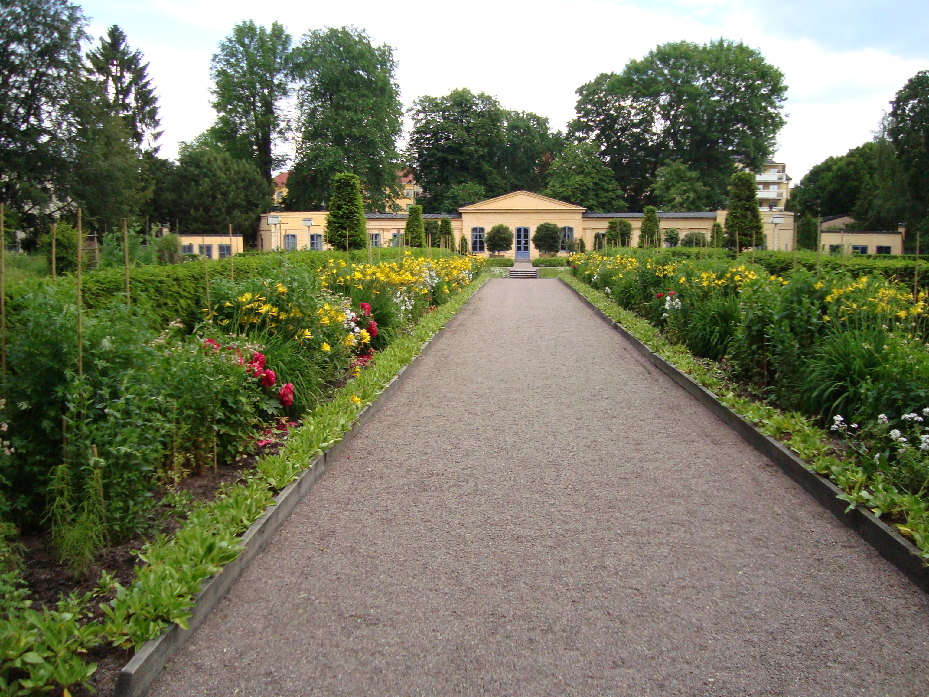 Carl von Linné's garden, Uppsala, Sweden